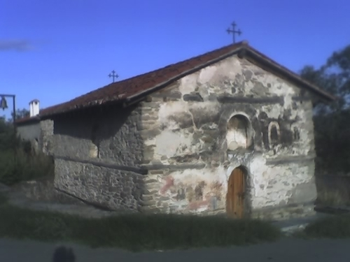 The church of Agia Kyriaki in Mavronoros village, Grevena prefecture, Greece